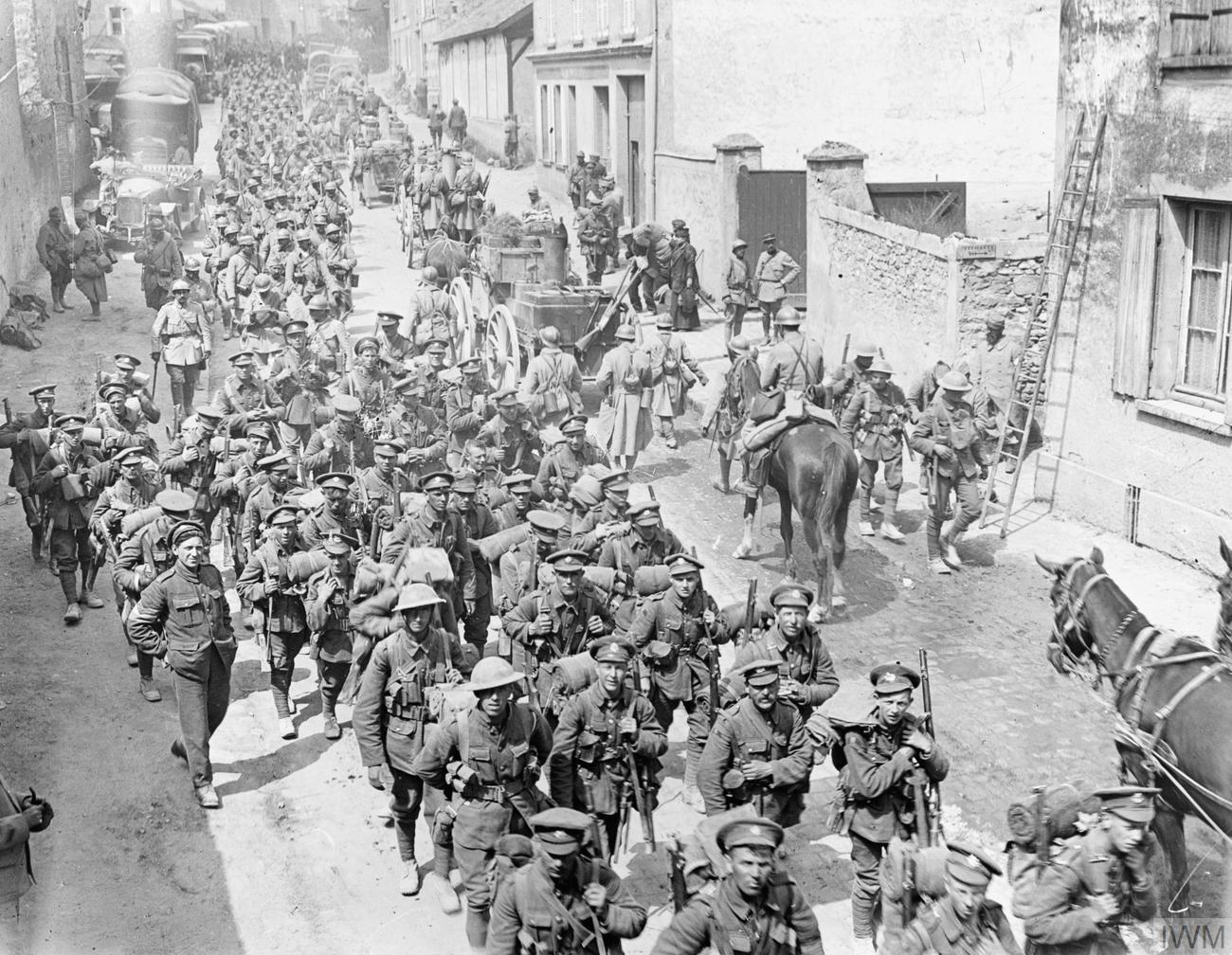 The German Spring Offensive, March-july 1918 The Third Battle of the Aisne. French and British troops marching back together through Passy-sur-Marne, 29 May 1918.